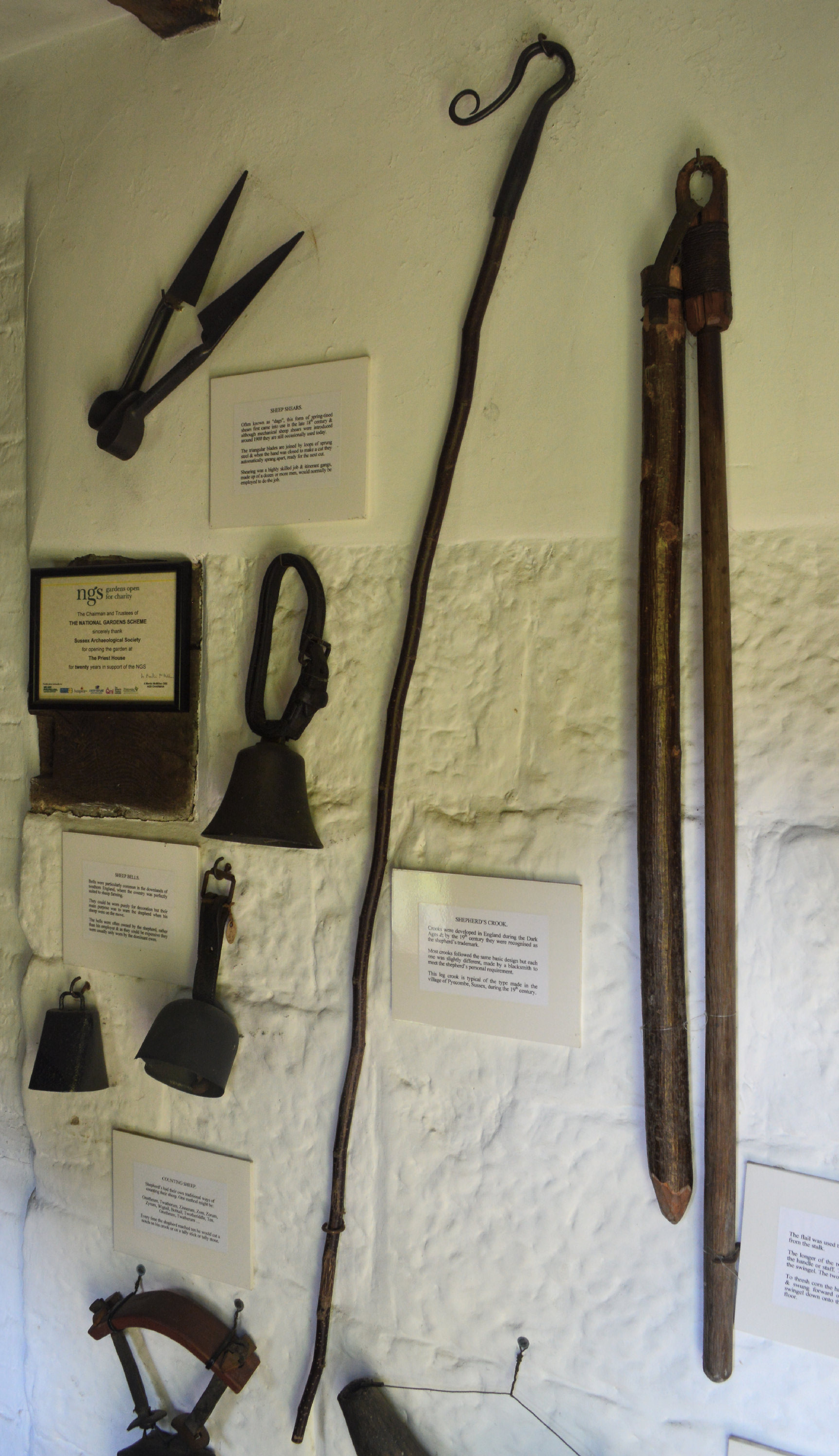 The Priest House, West Hoathly, Shepherd's Crook, Pyecombe Hook